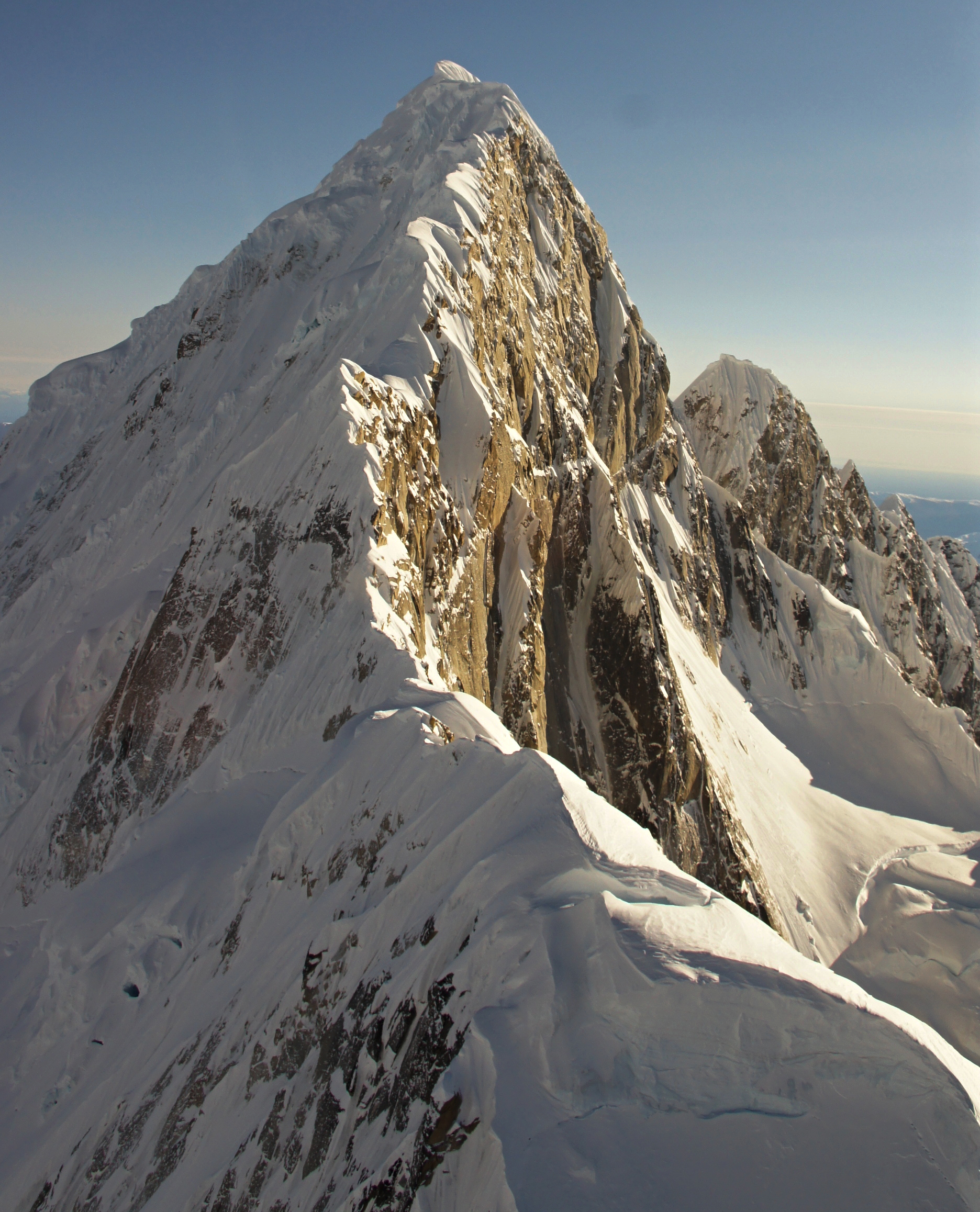 Mount Huntington aerial view